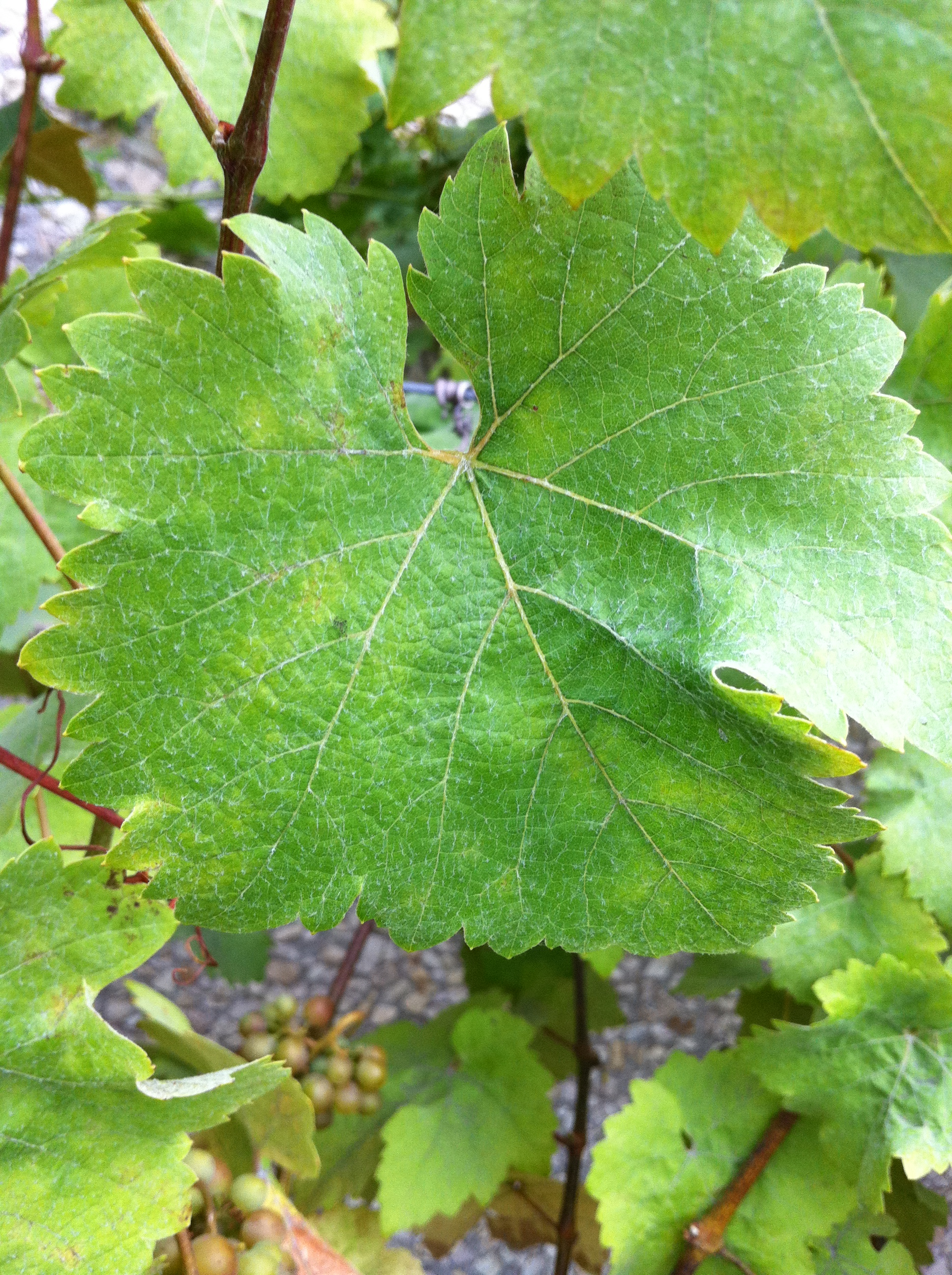 Close up of the Siegerrebe vine leaf with some clusters in the background.